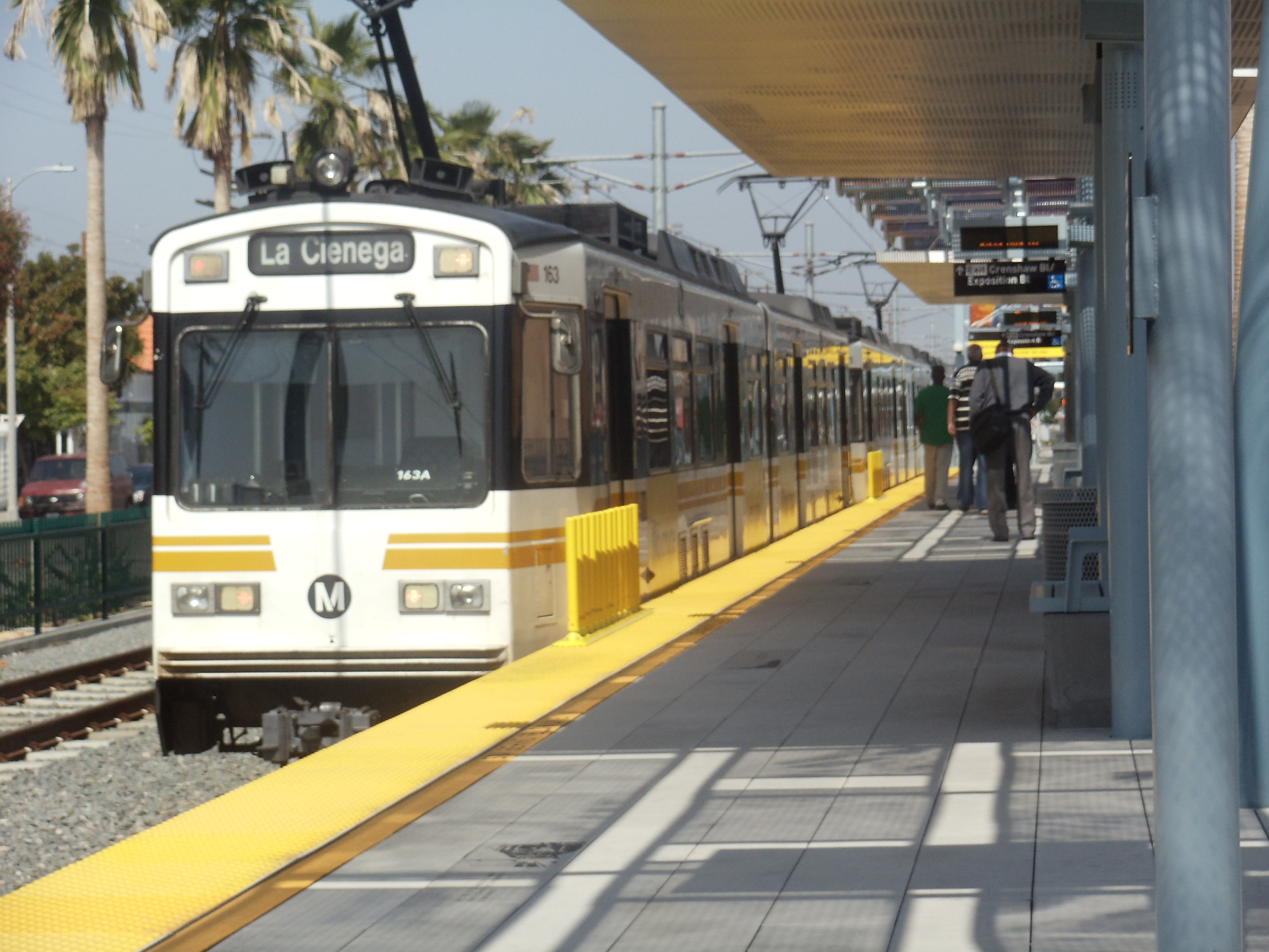 Metro Expo Line heading westbound to Jefferson/La Cienega Station leaves Expo/Crenshaw Station.